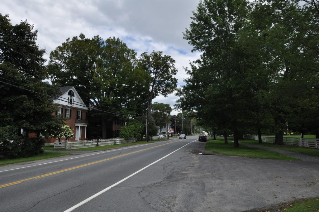 View of the southern part of the Orford Street Historic District, Orford, NH